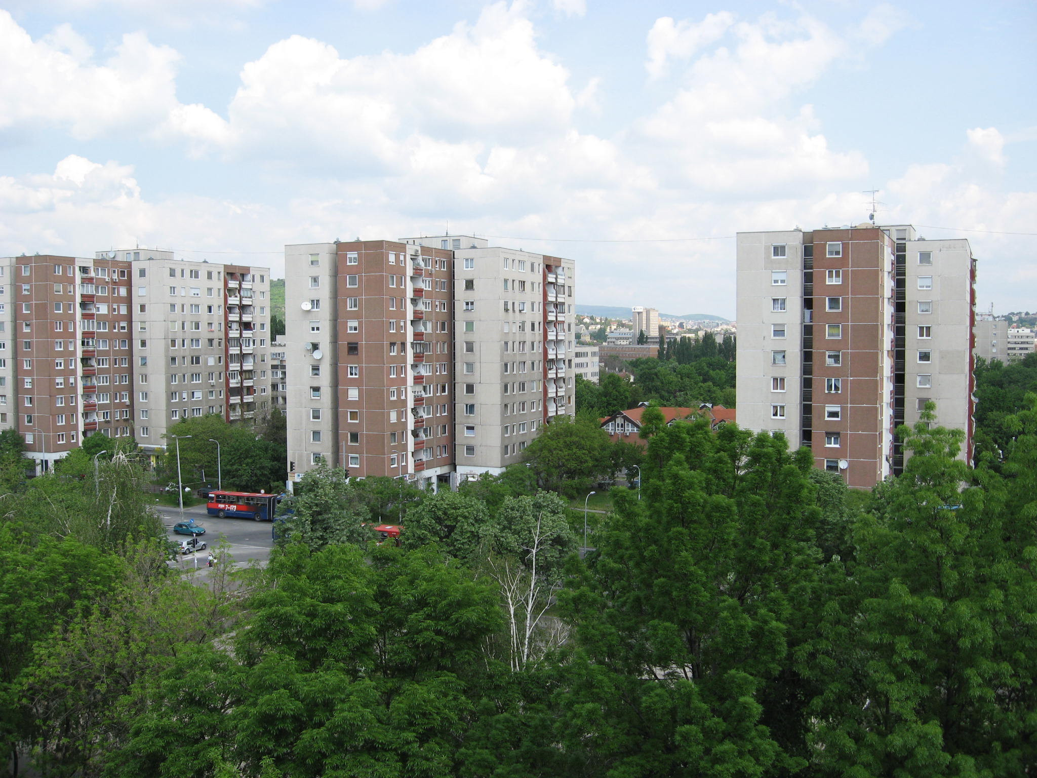 Tower blocks in Budapest/Kelenföld housing estate (built at the end of 1960's)